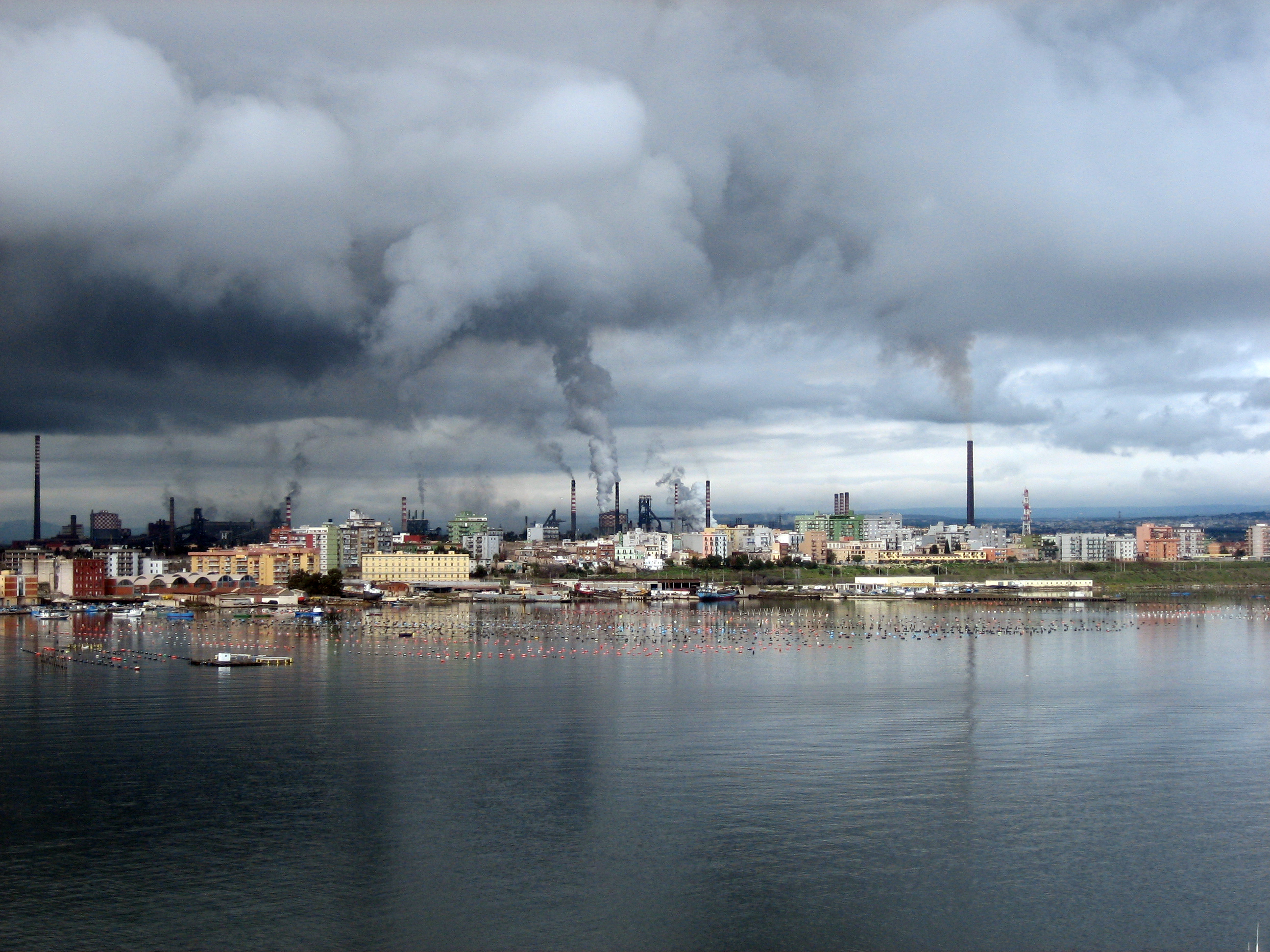 ILVA - Production unit of Taranto - Italy - 25 Dec. 2007